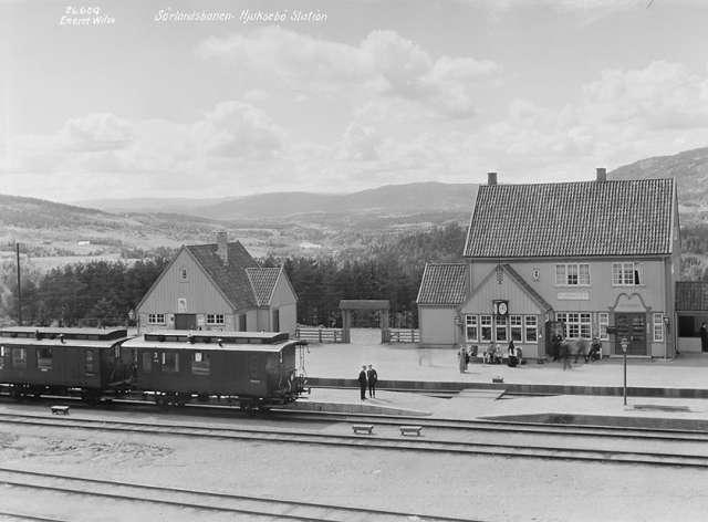 Nordagutu railway station on Sørlandsbanen, Sauherad, Norway.